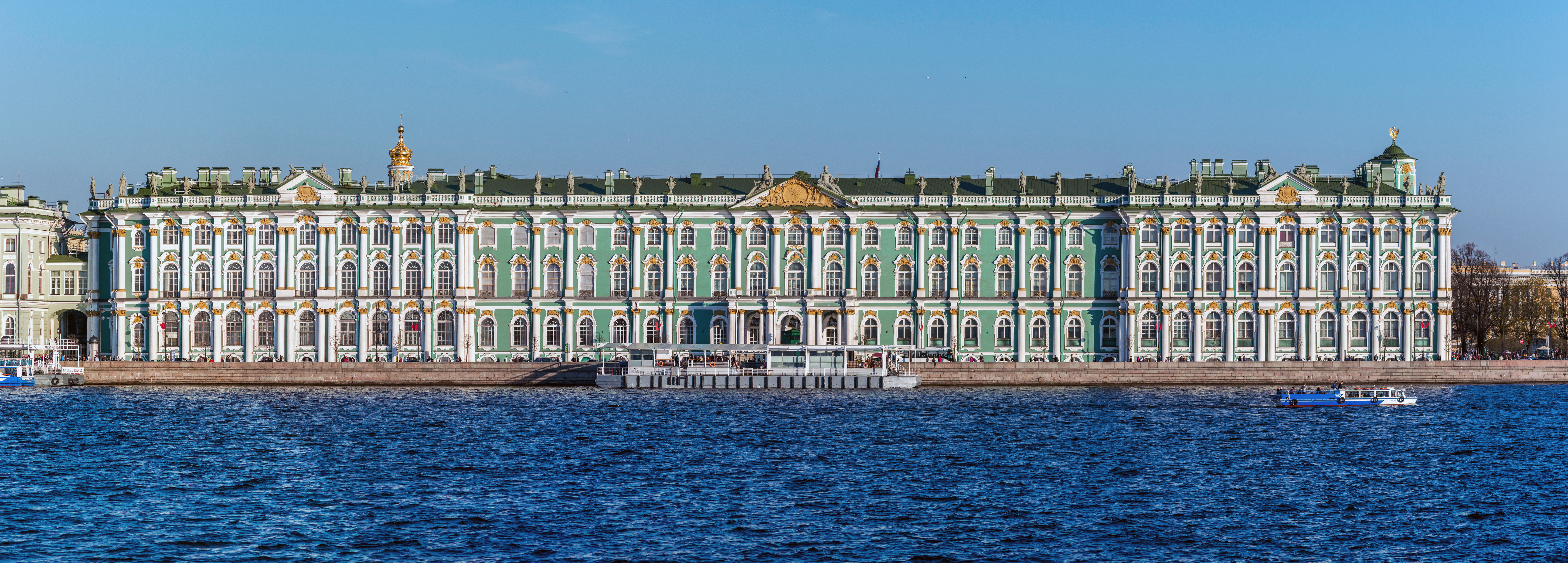 Winter Palace in Saint Petersburg. View from the Spit of Vasilievsky Island